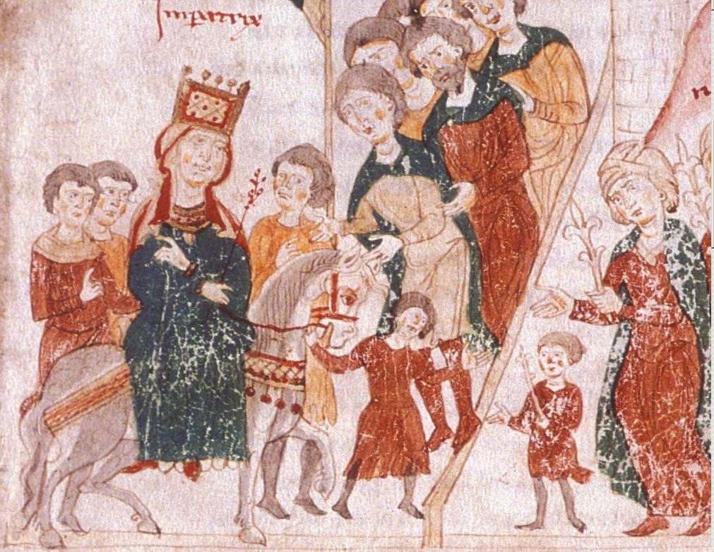 Constance of Sicily